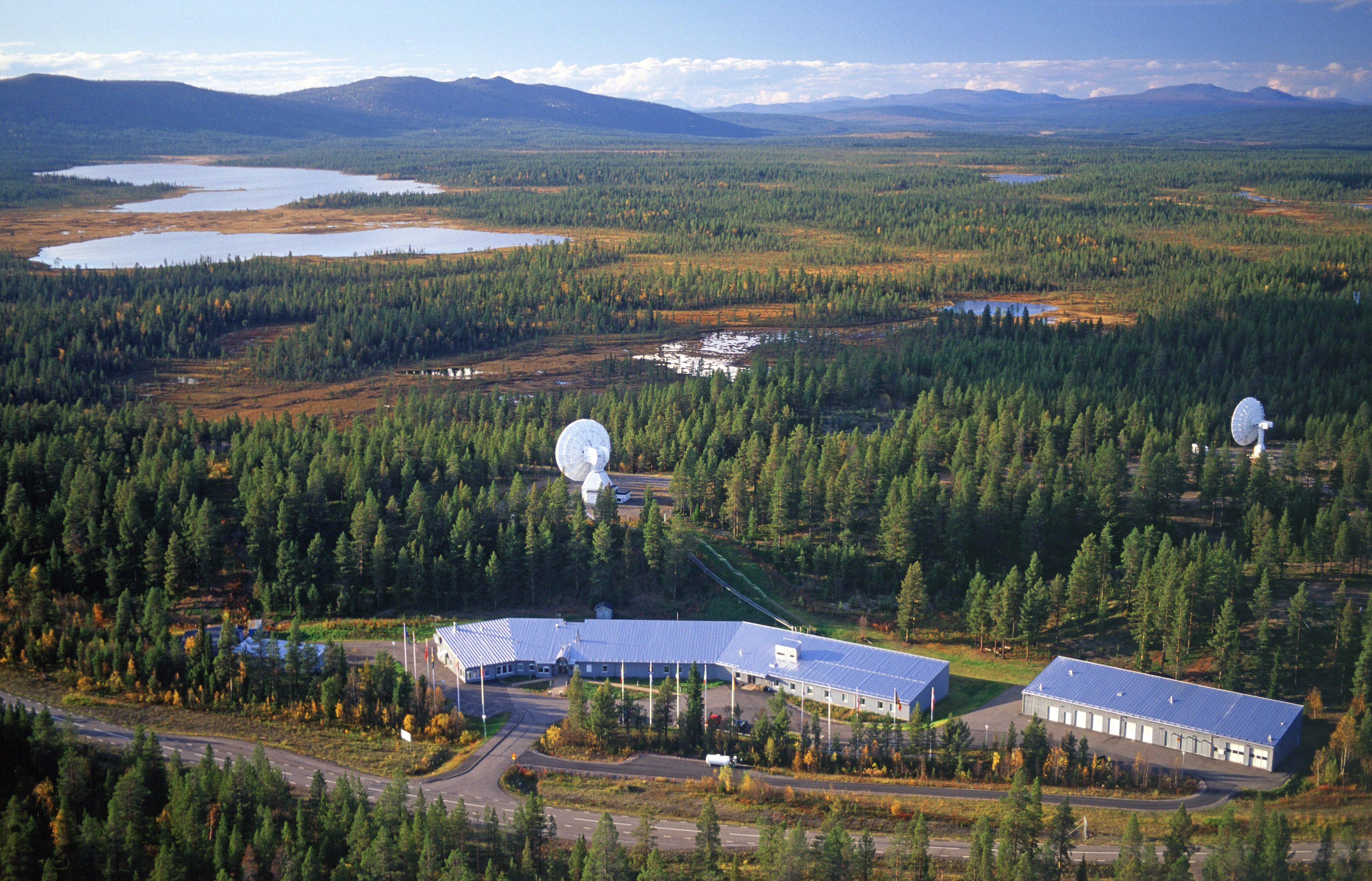 Kiruna station ESA's Kiruna station supports CryoSat, Integral, the Swarm trio and Sentinel 1A. It is located at Salmijärvi, 38 km east of Kiruna, in northern Sweden.